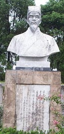 Statue of Li Shizhen at the herbal garden in Qizhou. Photo taken by myself (Frank Feather) in 2003.